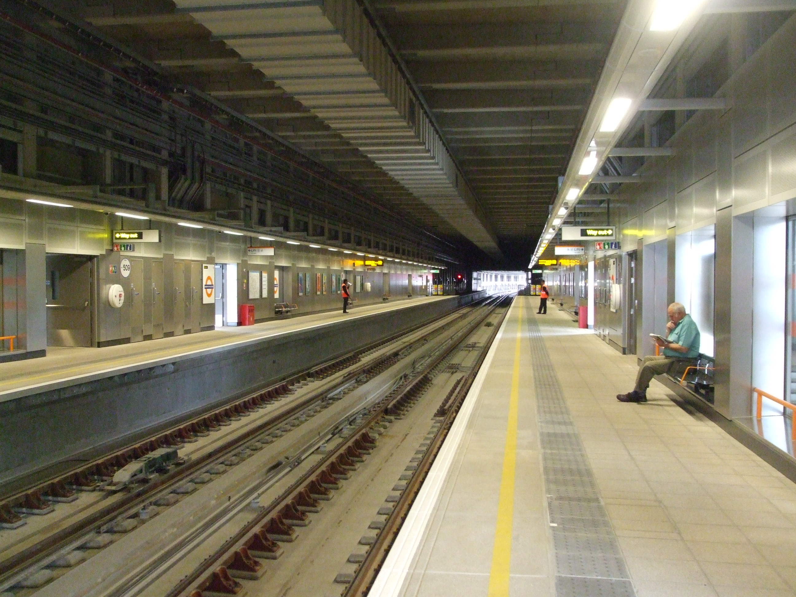 Shoreditch High Street station looking southbound (actually east here), a day after opening on 27 April 2010